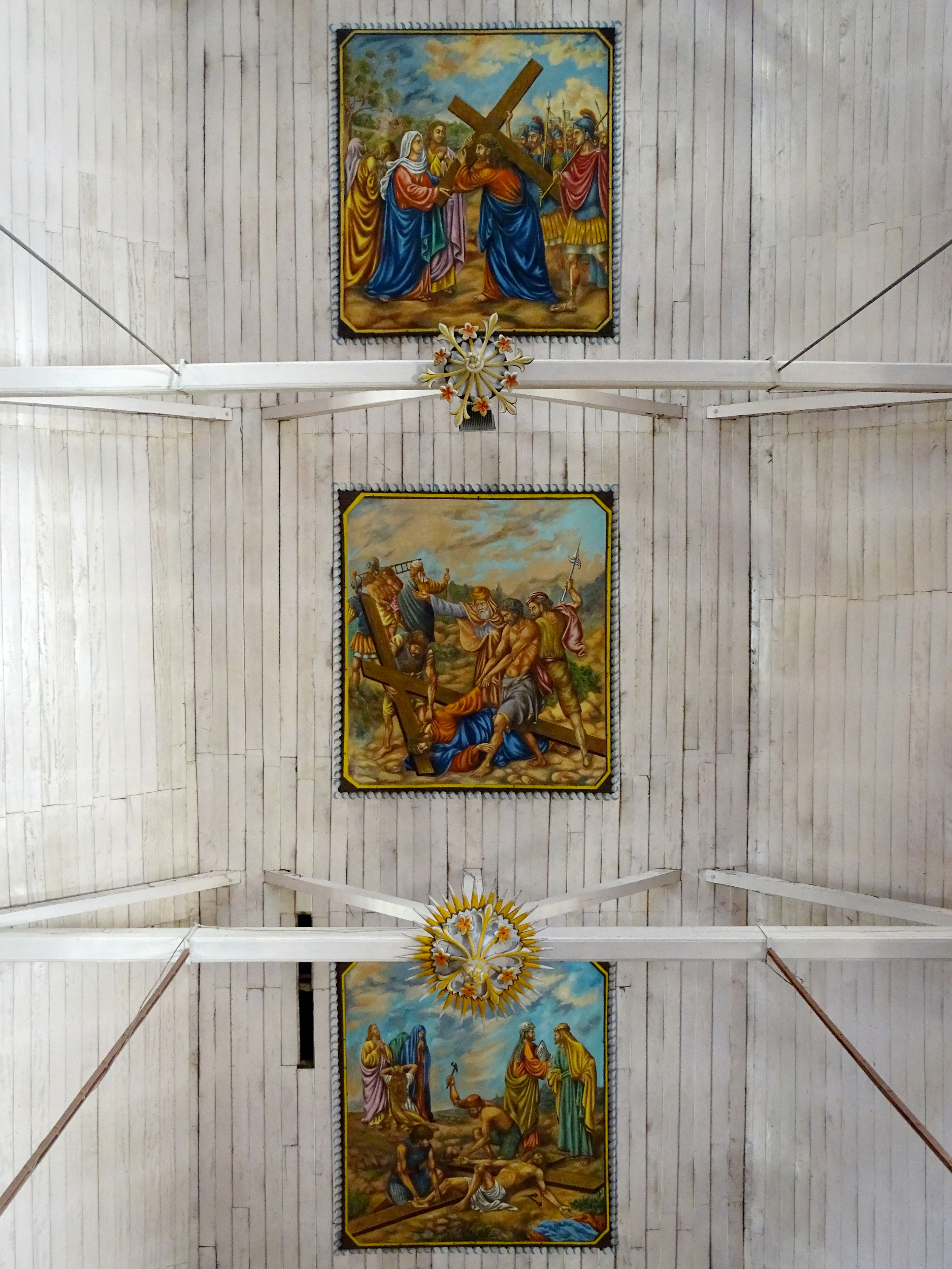 Some of the ceiling paintings inside the cathedral